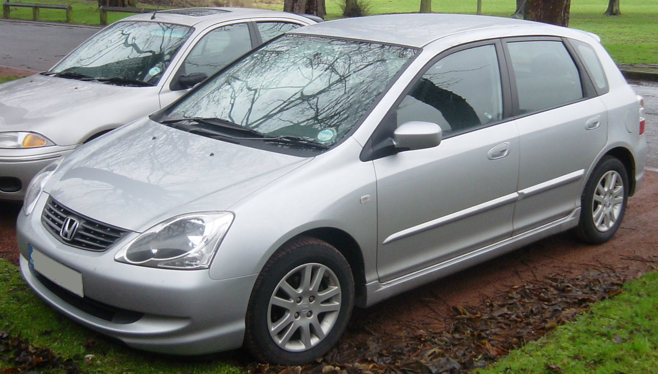 created by Mazurka